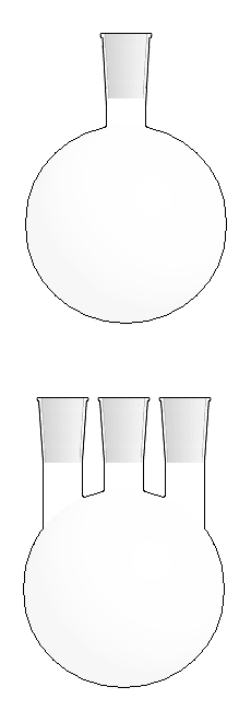 Drawing of one-neck Round-Bottom Flask at the top and three-neck Round-Bottom Flask at the bottom with all three necks parallel and pointing straight up. H Padleckas created this image file, completing it on September 25, 2006 especially for use in the article "Flask" in Wikimedia. H Padleckas 21:43, 27 September 2006 (UTC)